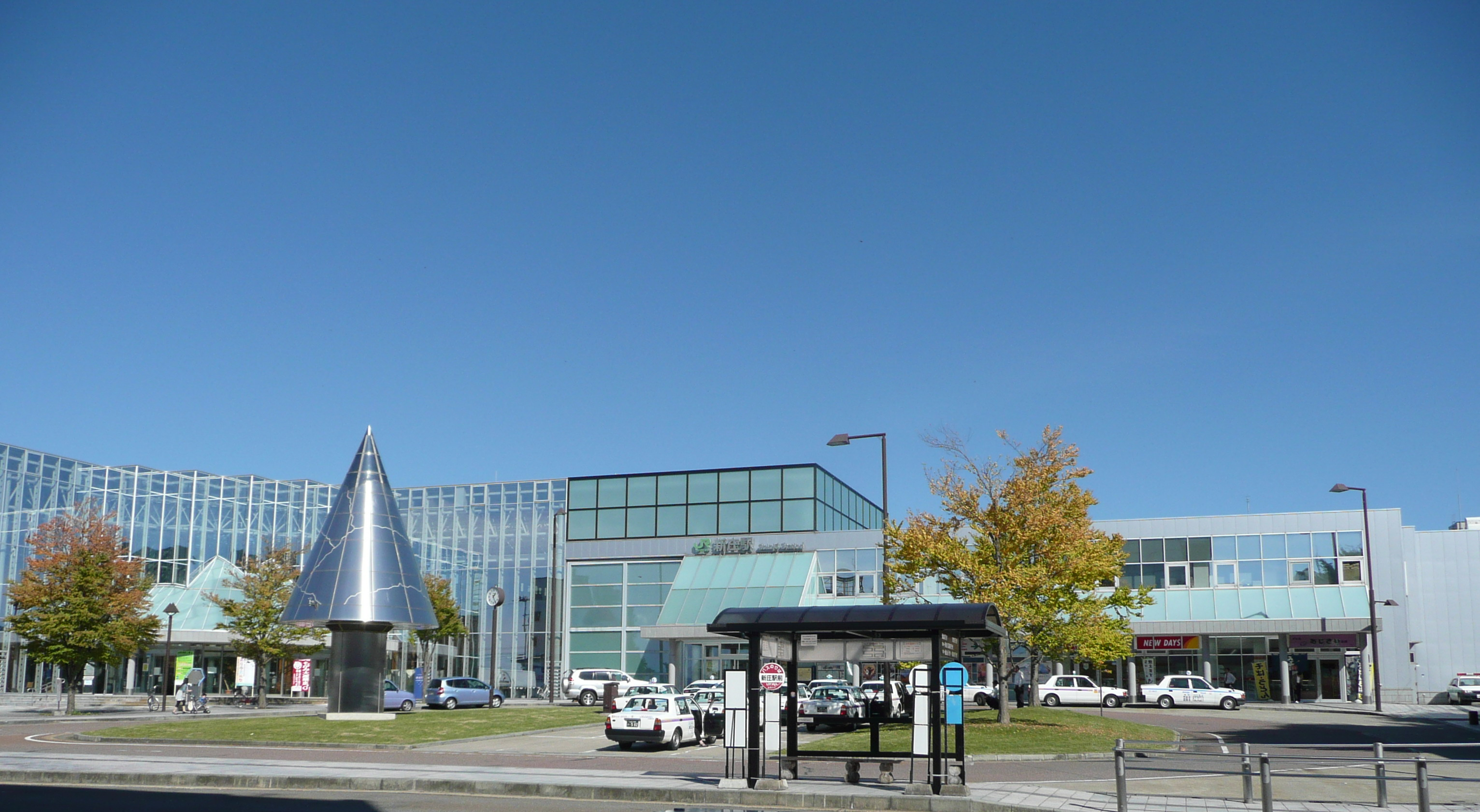 新庄駅西口